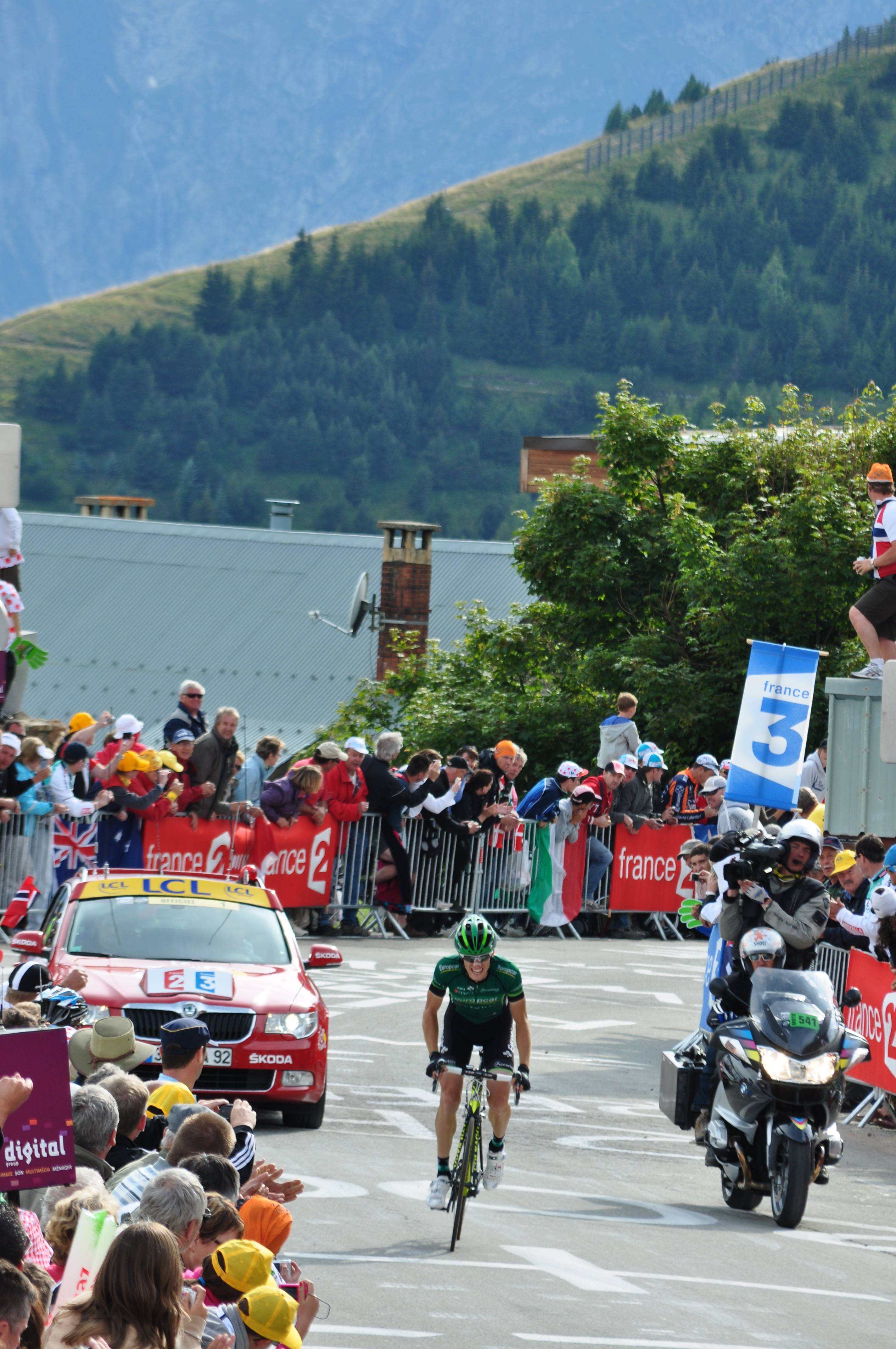 Pierre Rolland rides to victory in stage 19 of the 2011 Tour de France on Alpe d'Huez.